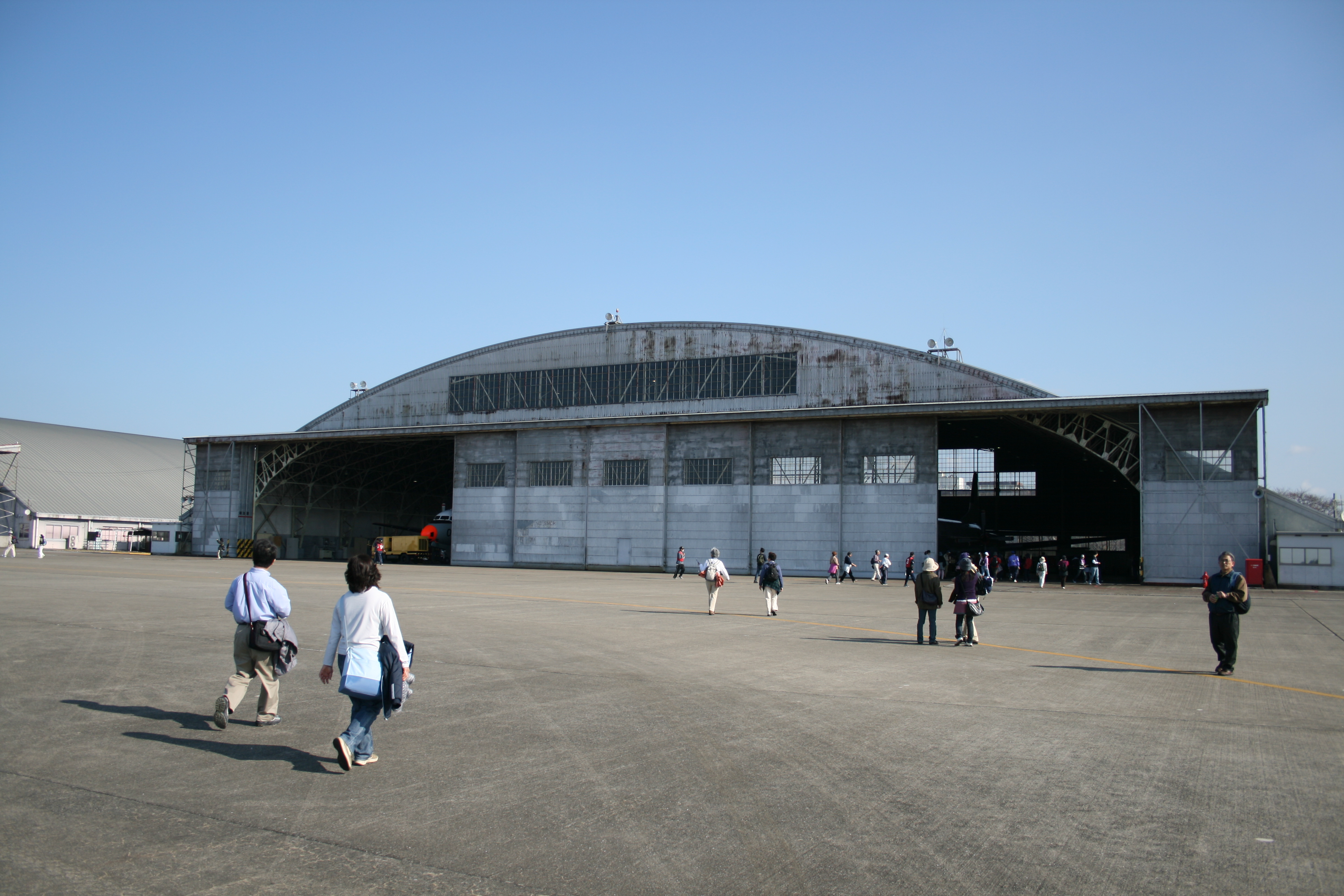 Shimofusa Air Base's hangar.